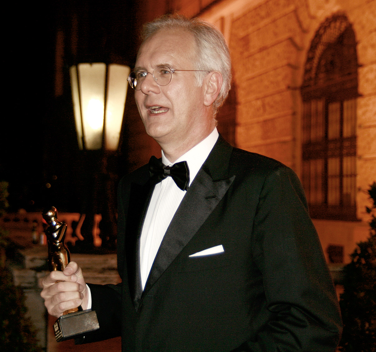 Harald Schmidt at the Romy TV awards (Hofburg Imperial Palace in Vienna)